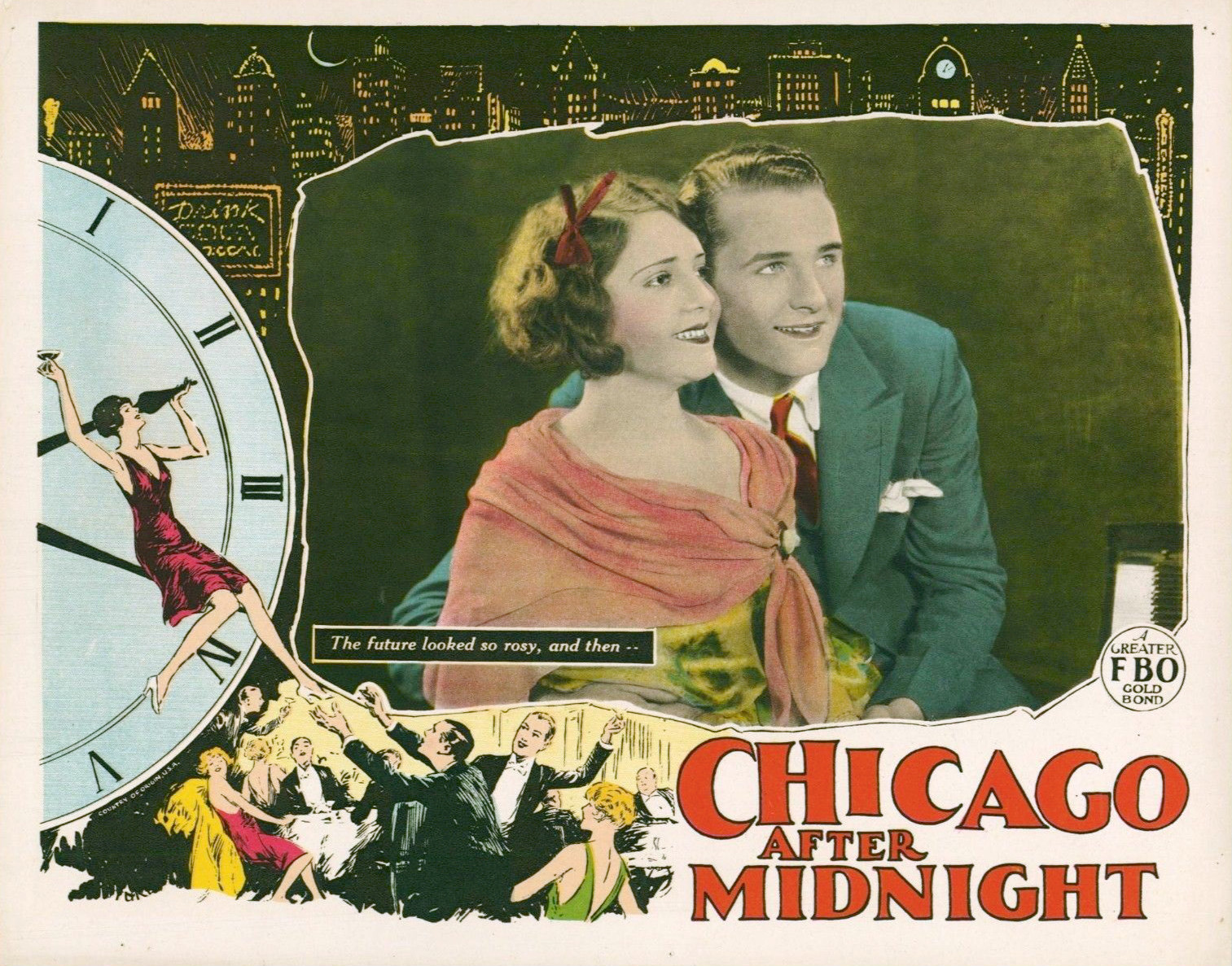 Lobby card for the 1928 film Chicago After Midnight. There are no copyright marks on the item. At bottom left is Country of origin USA-arounf clock face.